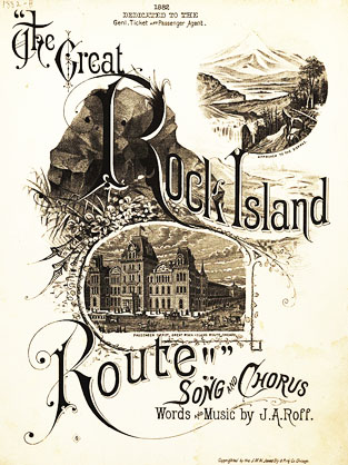 Sheet music cover known more famously as Wabash Cannonball